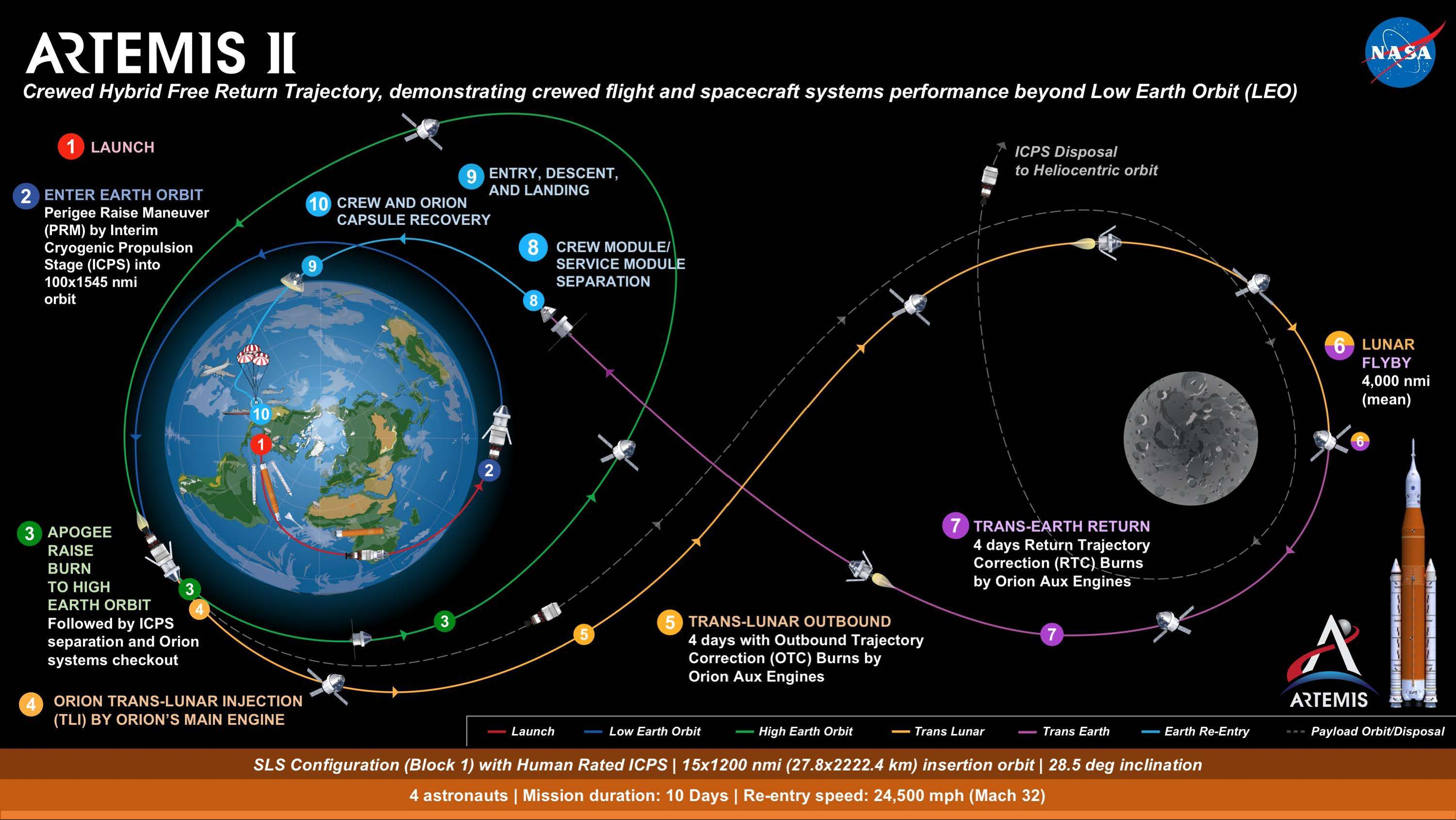 Artemis 2 will send 4 astronauts over 10 days and have a re-entry speed of 24,500 mph (mach 32).